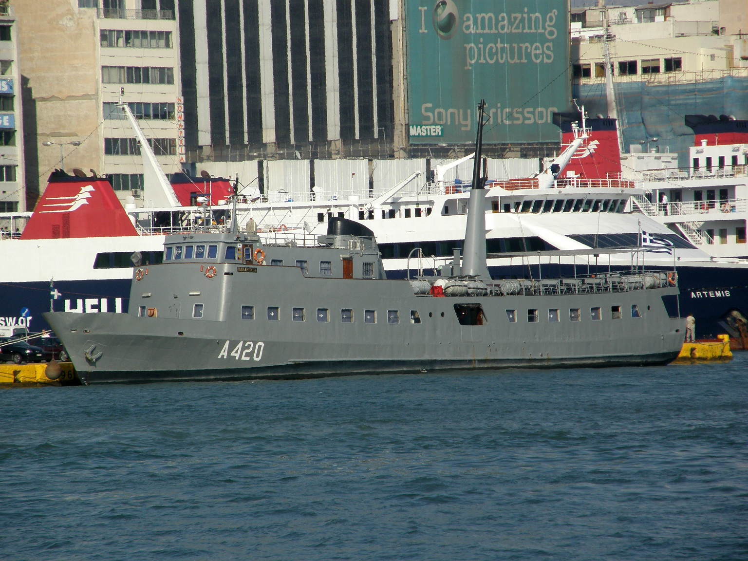 APS HS Pandrosos, A-420, SZDZ, a Hellenic Navy Pandora-class personnel transport in Piraeus harbor.